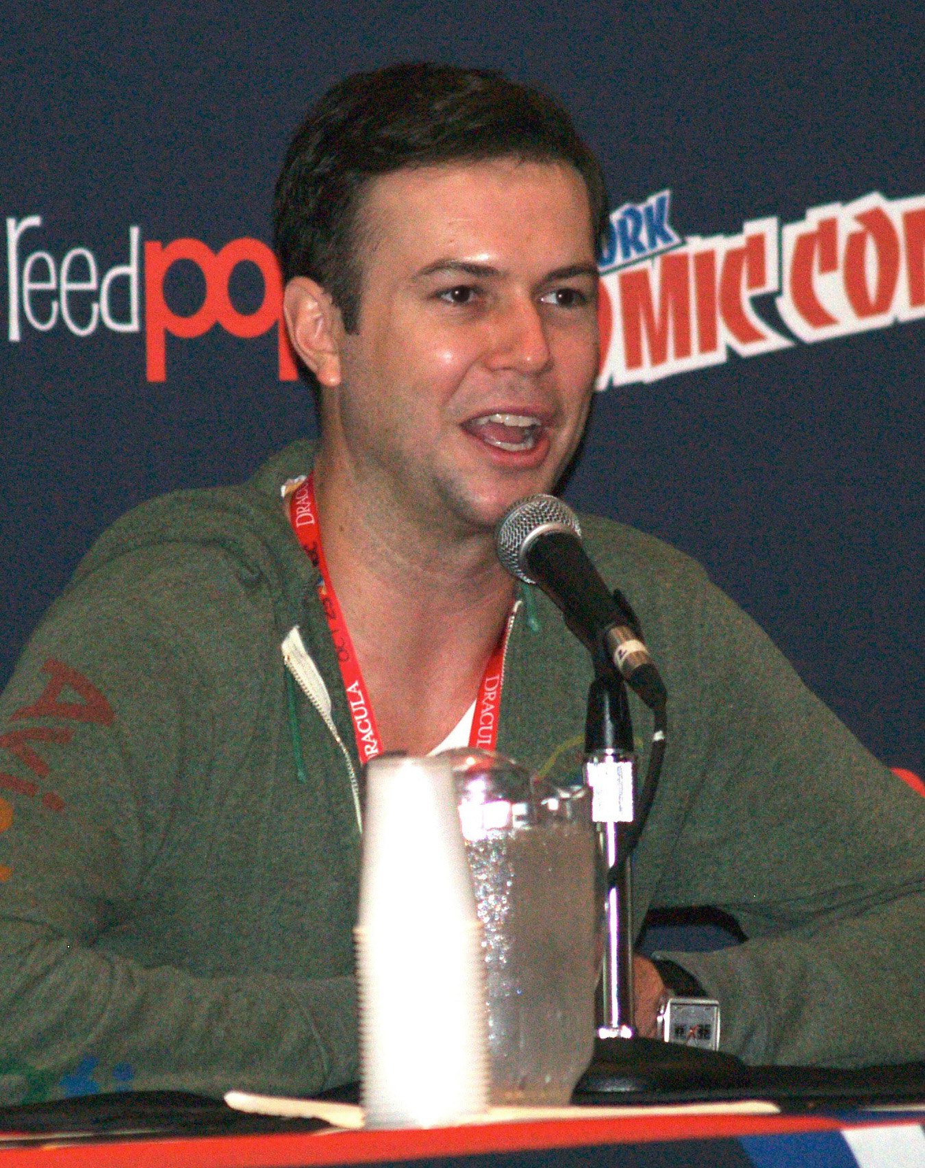 Actor/comedian Taran Killam speaking on a panel regarding The Illegitimates, the IDW comic book miniseries created by him and writer Marc Andreyko, on Sunday, October 13, 2013 at the Jacob K. Javits Convention Center in Manhattan, Day 4 of the 2013 New York Comic Con. This photo was created by Luigi Novi. It is not in the public domain, and use of this file outside of the licensing terms is a copyright violation.